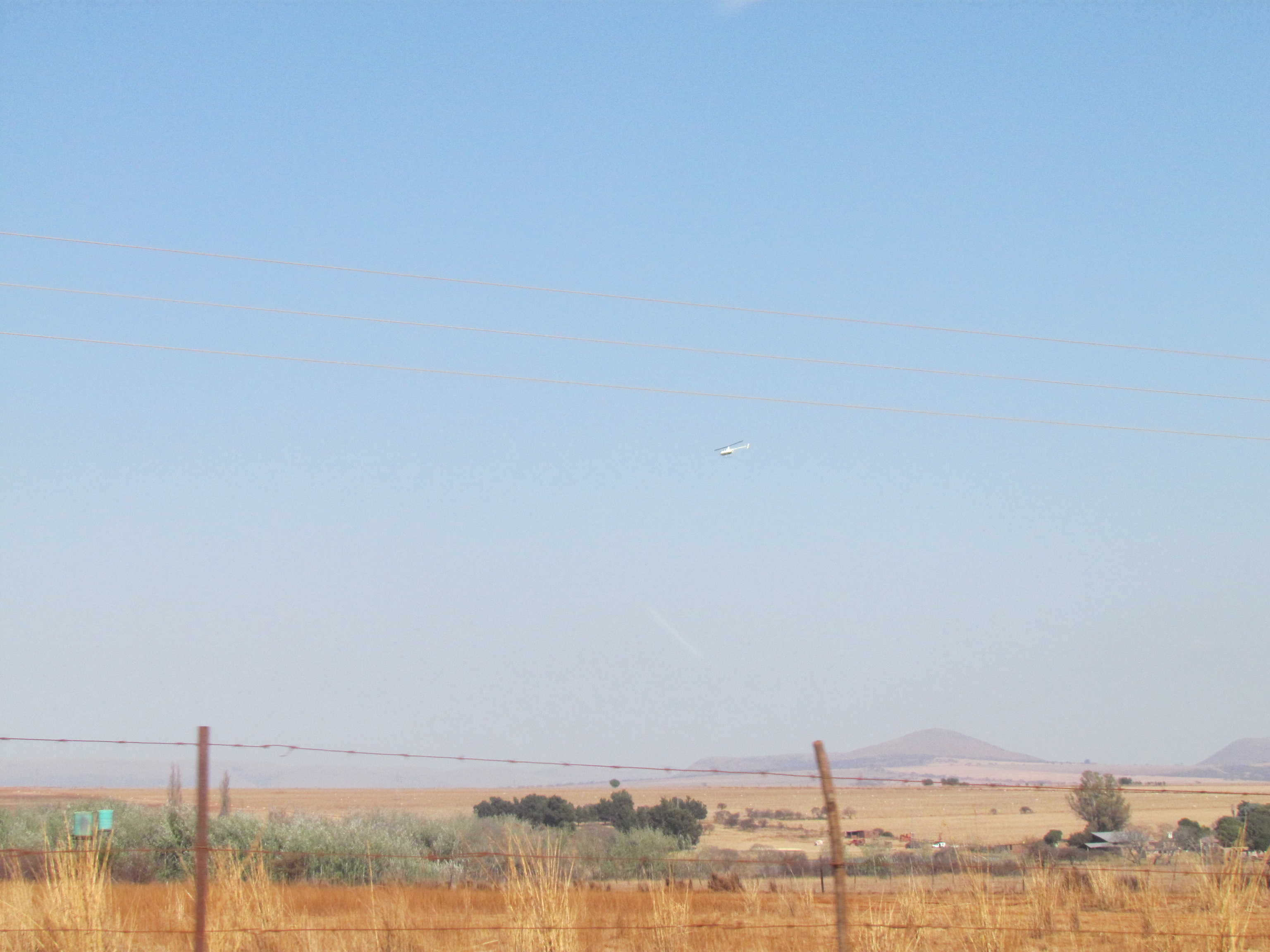 Helicopter searching for attackers after the attack on a farmer. Limpopo, South Africa